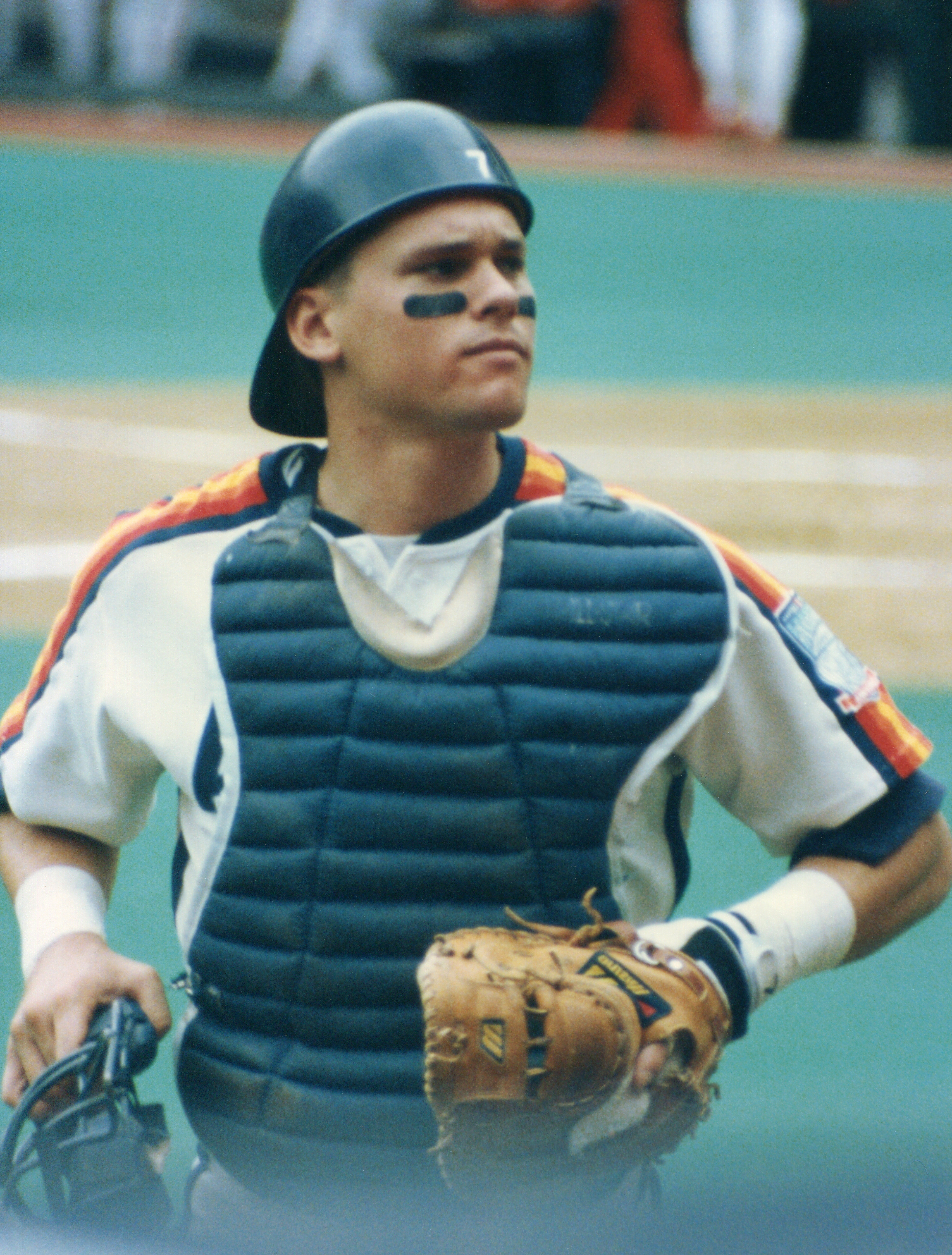 Craig Biggio playing catcher for the Houston Astros at Riverfront Stadium in Cincinnati on October 3, 1990